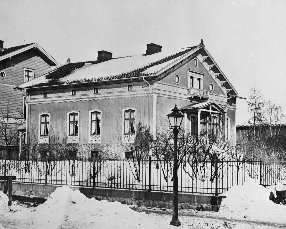 The private villa of architect Hans Linstow in Wergelandsveien 15, Oslo, Norway. The villa was from ca. 1846 and was demolished in 1955. Source; Oslo byleksikon 2010, p.631